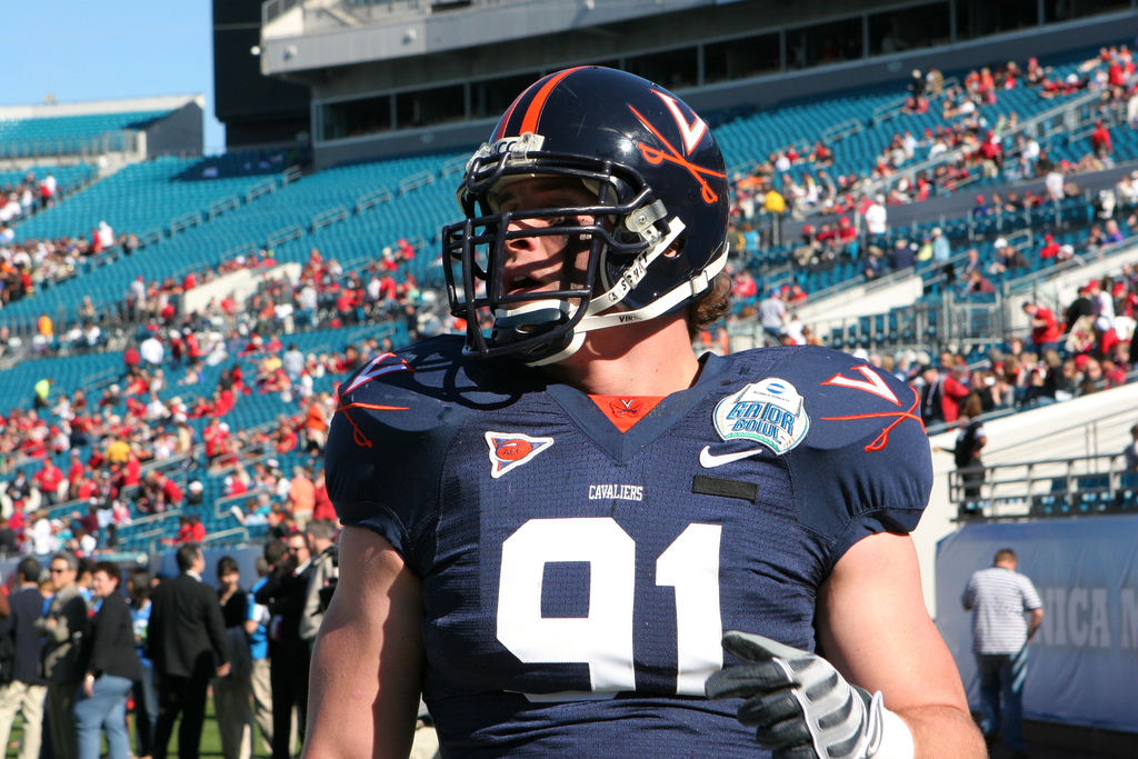 Chris Long, defensive end for the Virginia Cavaliers at the 2008 Gator Bowl 2008 in Jacksonville, FloridaChris Long son of Howie Long